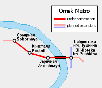 Map of the Omsk Metro, English transcription and labeling